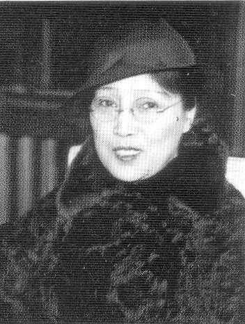 Toshiko Tamura (1884-1945) was a Japanese authoress.